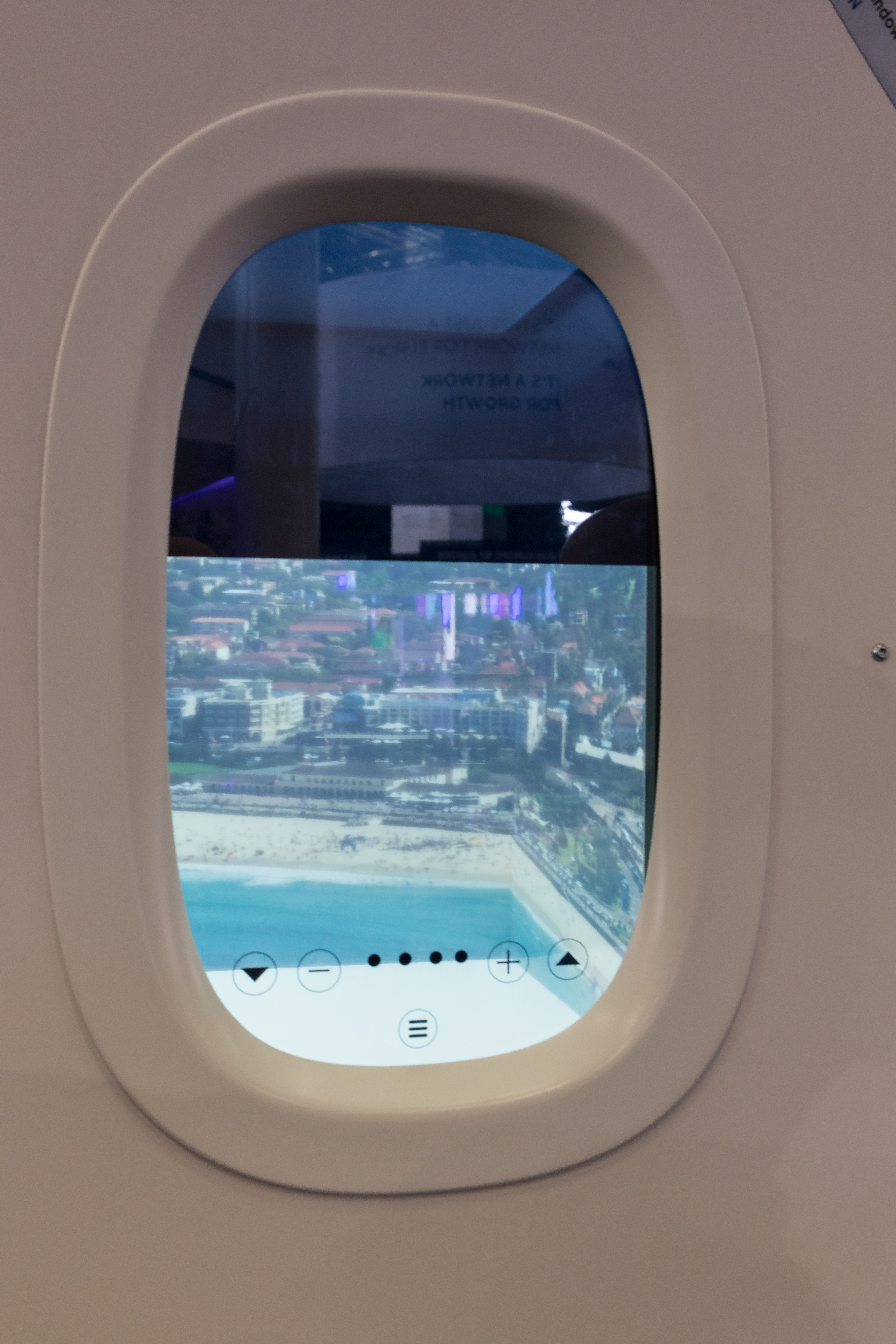 Passenger Experience Week 2018, Hamburg